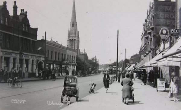 View of the Uxbridge Rd and St Stephen's Spire, Shepherd's Bush, circa 1900